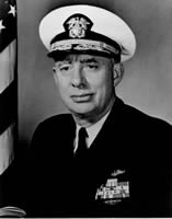 Vice Admiral Lawson P. “Red” Ramage